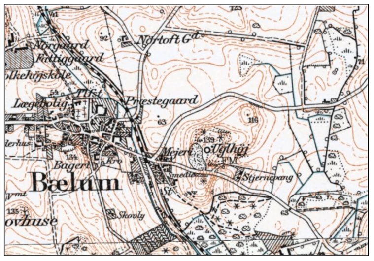 Bælum i mellemkrigstiden